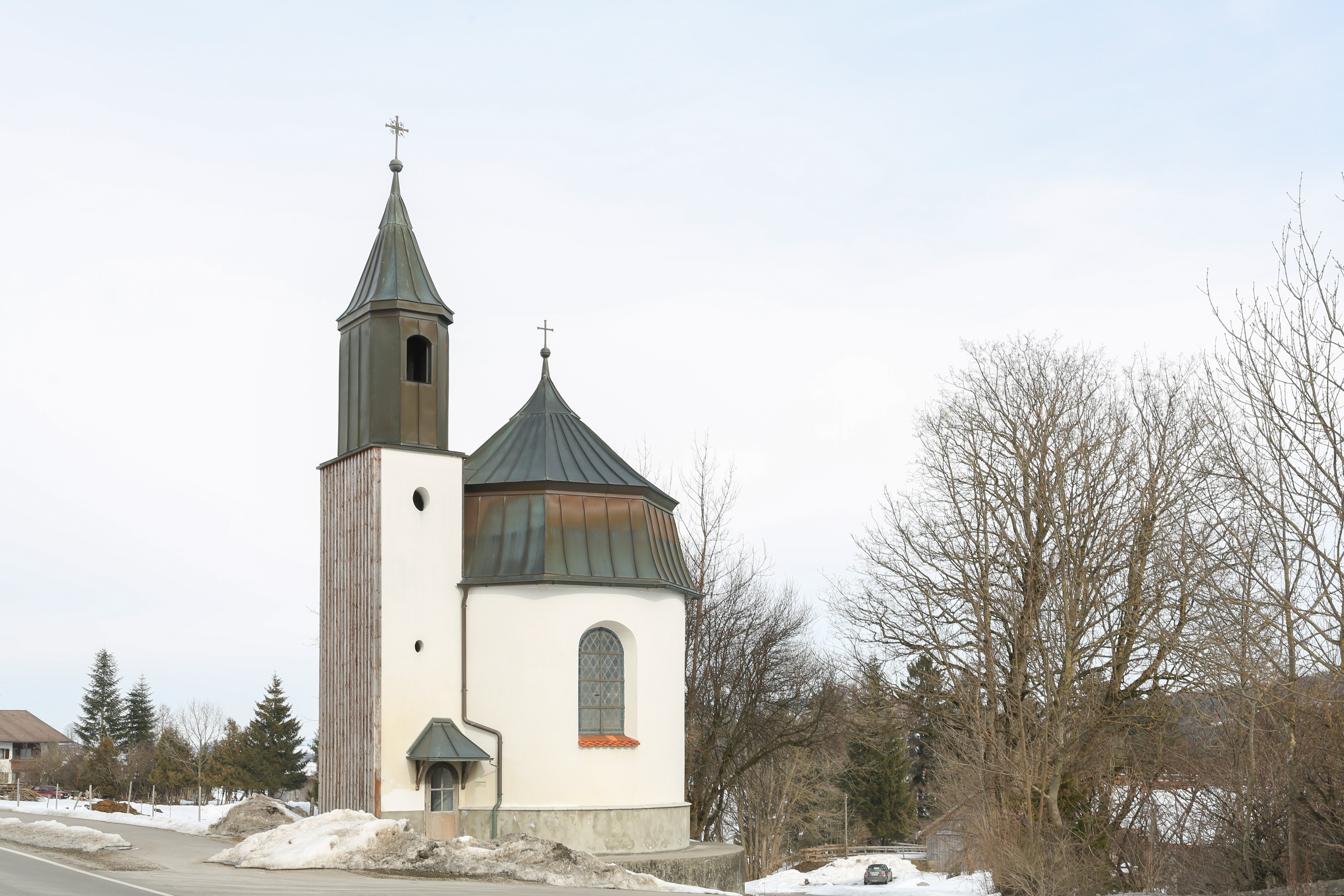 St Trinity Chapel, Enzenstetten, Germany